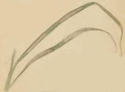 Stainton’s Natural History of the Tineina (1855–1873): Elachista freyerella two mined leaf blades of a Poa species